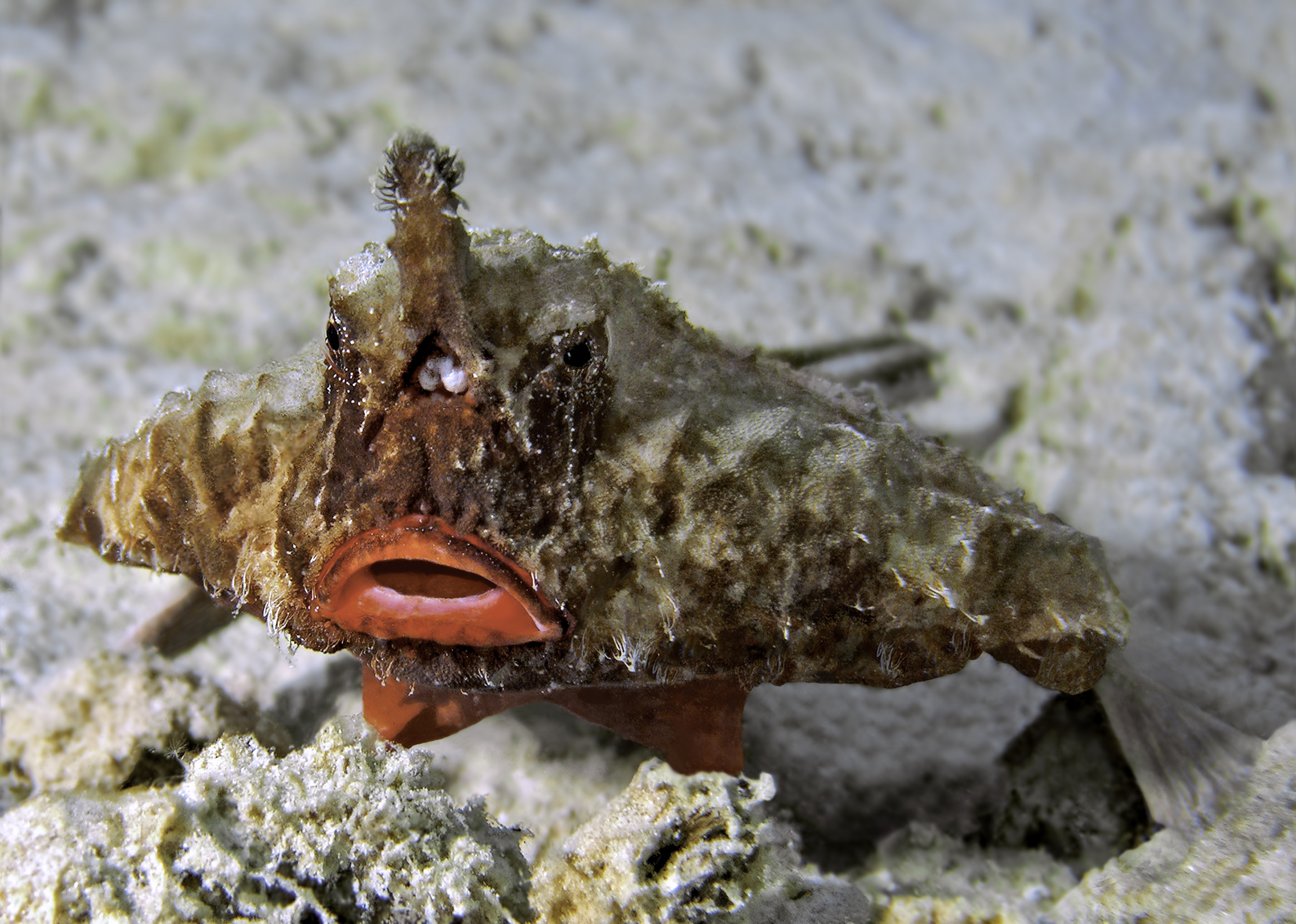 Longnose batfish (Ogcocephalus corniger). Photograph was taken underwater at about 30 ft (9.1 m) on a very sandy bottom with lots of coral rubble. It wasn't too far from shore where the surge was quite noticeable. Batfish are not common on Bari Reef – haven't seen another one anywhere near the island in over a decade. Batfish are quite skittish so it is very difficult to get them to sit still long enough for the sand to settle. They have a unique texture with a sort of algae-like overcoat.